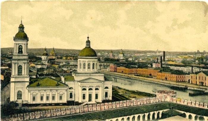 Kazan Church (Tula)